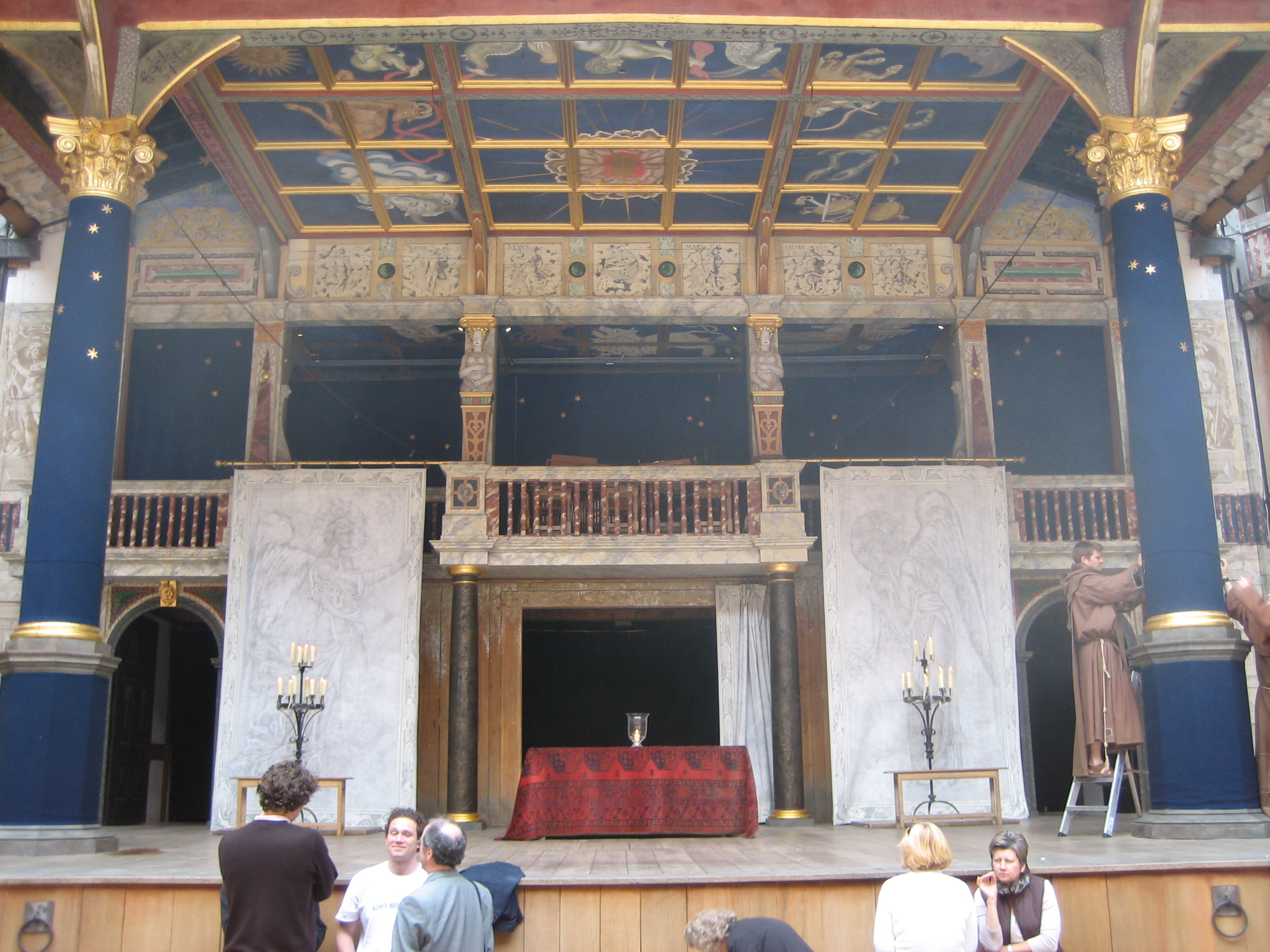 The set for In Extremis - taken by me at matinee 19th May 2007